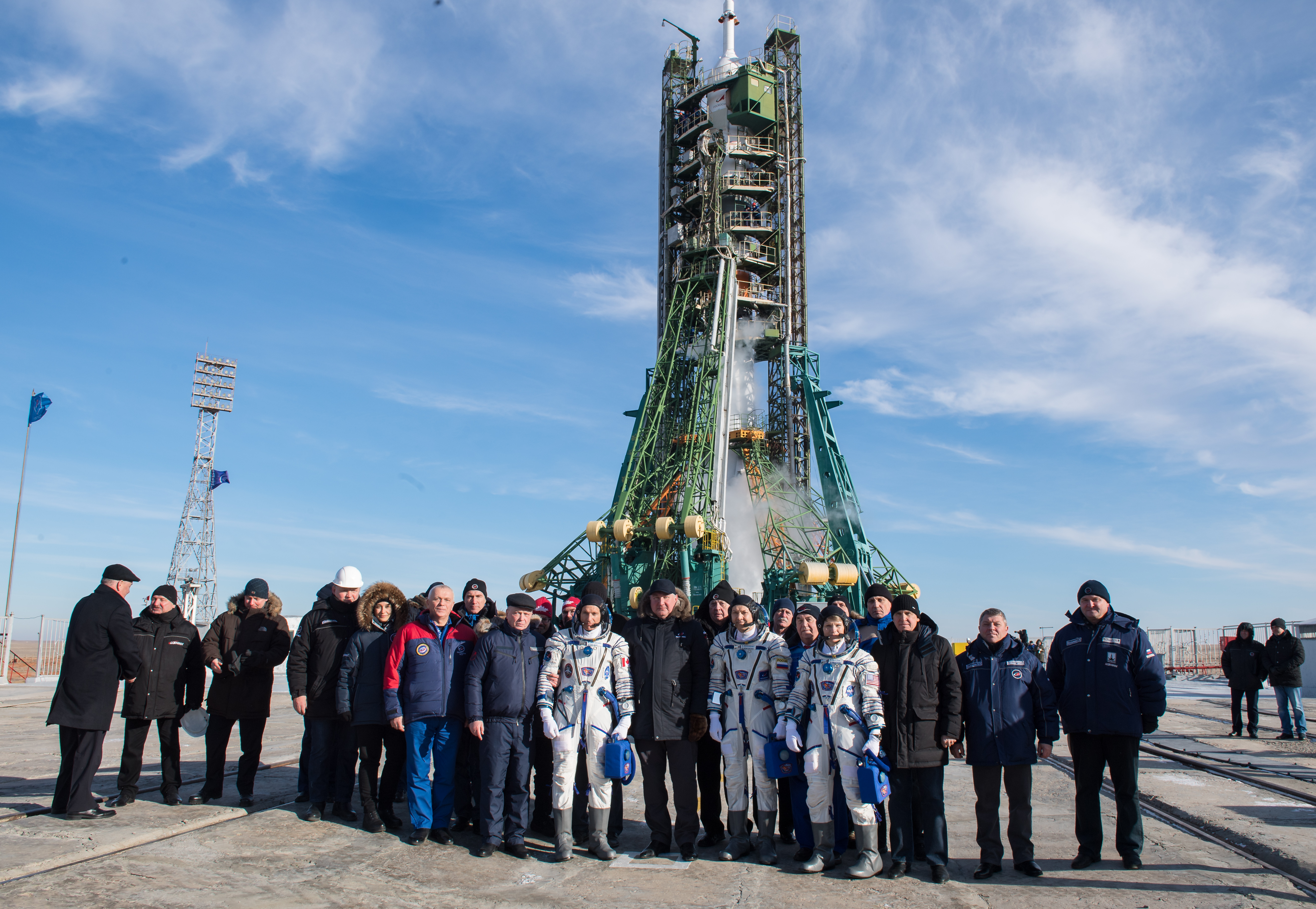 Expedition 58 crew, Flight Engineer Anne McClain of NASA, Soyuz Commander Oleg Kononenko of Roscosmos, and Flight Engineer David Saint-Jacques of the Canadian Space Agency (CSA) pose for a photo with senior officials of Roscosmos, NASA, and the Canadian Space Agency (CSA) after arriving at the launch pad by bus to begin boarding the Soyuz MS-11 spacecraft for launch, Monday, Dec. 3, 2018 in Baikonur, Kazakhstan. Kononenko, McClain, and Saint-Jacques will spend the next six and a half months onboard the International Space Station.